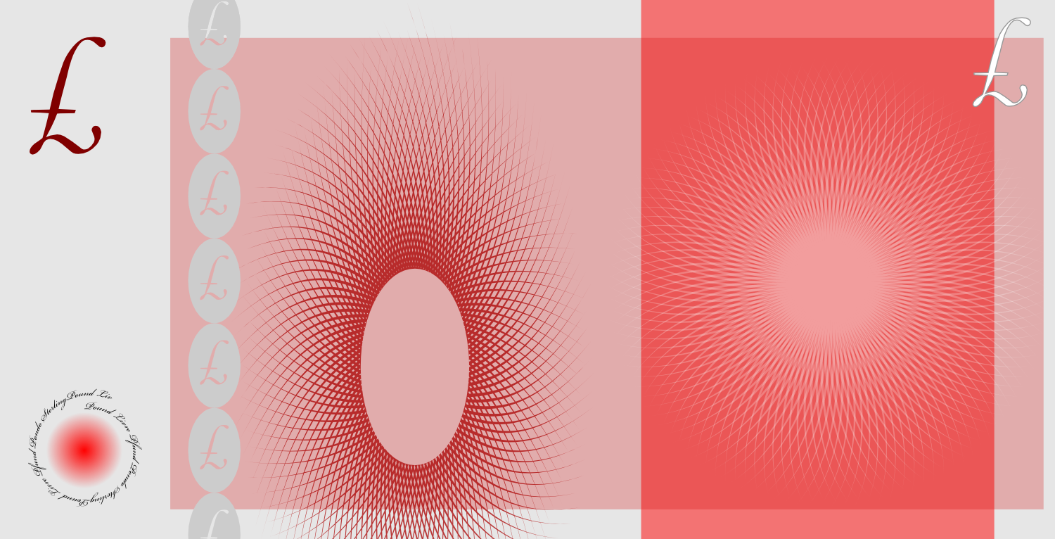 Generic representation of a sterling banknote, with typical bank designs as used but without issuing Authority value or other details